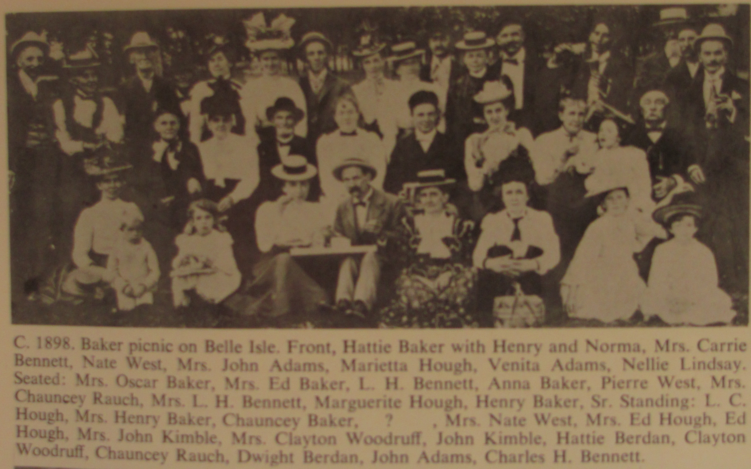 Baker Family of Plymouth Michigan at Belle Isle, Detroit. Charles H. Bennett, President of Daisy Mfg. 1920-56, initial investor of Ford Motor Co. L.C. Hough, Michigan State Senator, E.C. Hough, President of Daisy Mfg. 1956-59, benefactor of Plymouth Library with sister Mary Hough Kimble, President of Wayne County Telephone Co. Secretary and treasurer of Gray Motors, Chauncey E. Baker, Postmaster and Treasurer of Plymouth, Civil war Vet, ?mark is Oscar Baker, civil war Vet. Photo by Edwin P. Baker